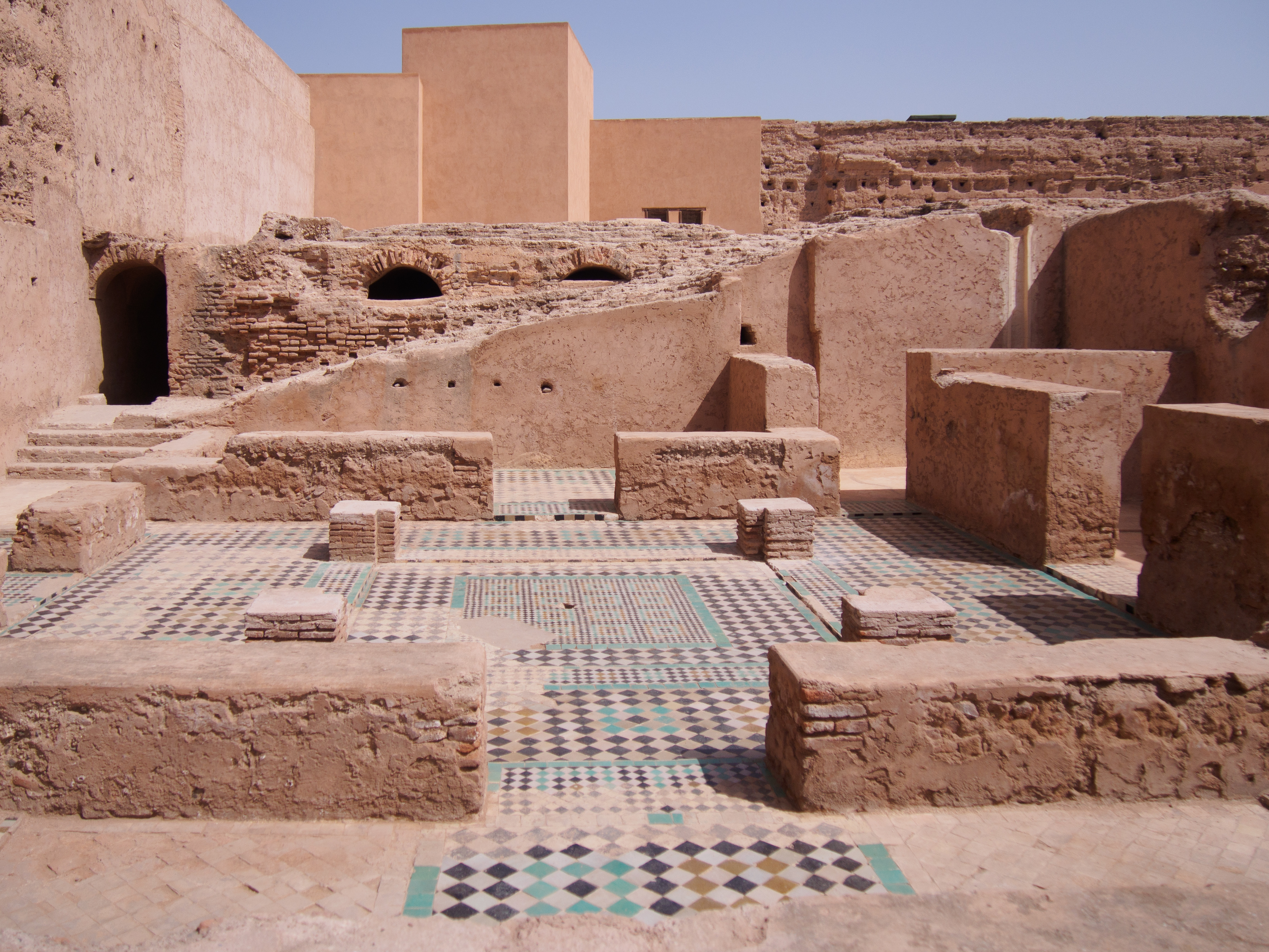 El Badi Palace - south part, with the remains of a fountain.